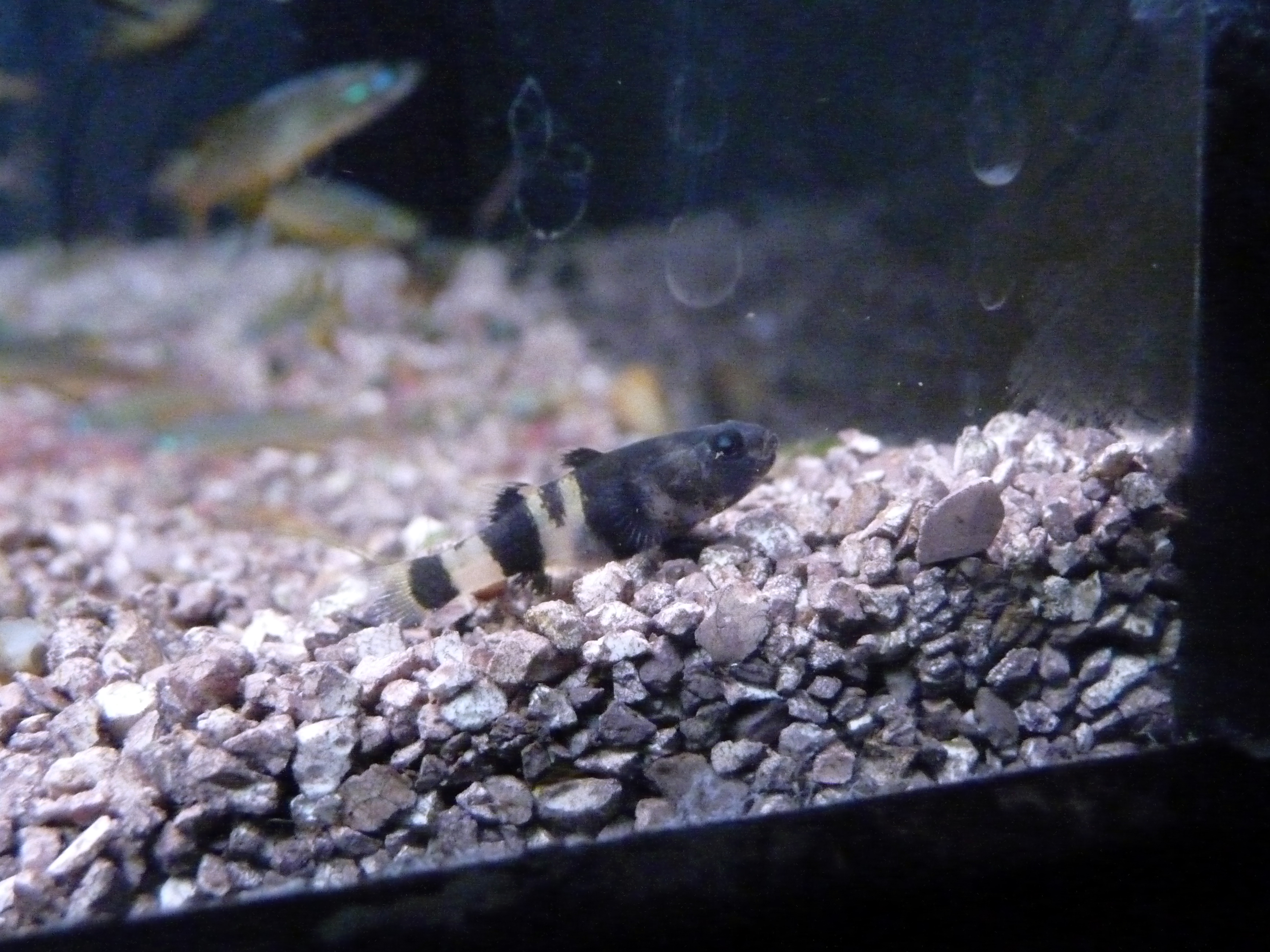 Brachygobius xanthozona